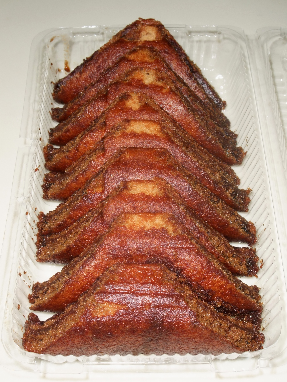 Getanha, Wagashi from Kagoshima Prefecture, Japan